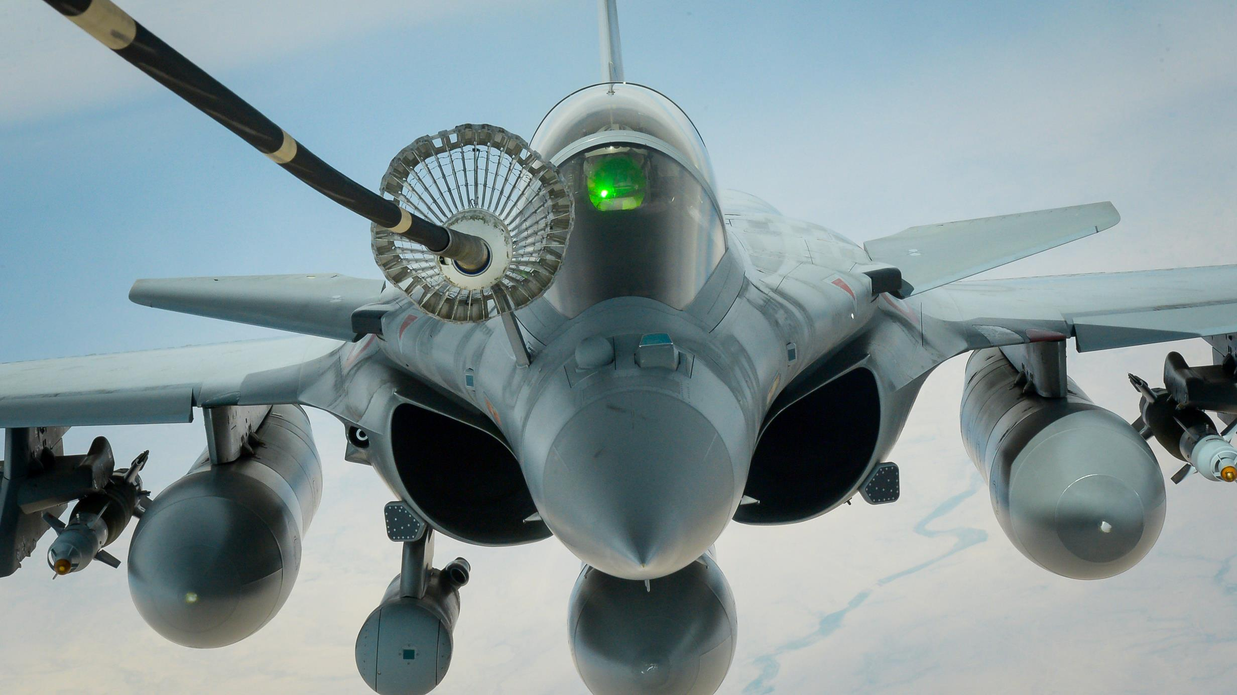 A French air force Dassault Rafale refuels from a U.S. Air Force KC-10 Extender from the 908th Expeditionary Air Refueling Squadron during a Combined Joint Task Force - Operation Inherent Resolve mission March 20, 2017. The KC-10 provides aerial refueling capabilities for U.S. and coalition aircraft as they support Iraqi Security Forces and partnered forces as they work to liberate territory under the control of Islamic State of Iraq and Syria. (U.S. Air Force photo/Senior Airman Joshua A. Hoskins)